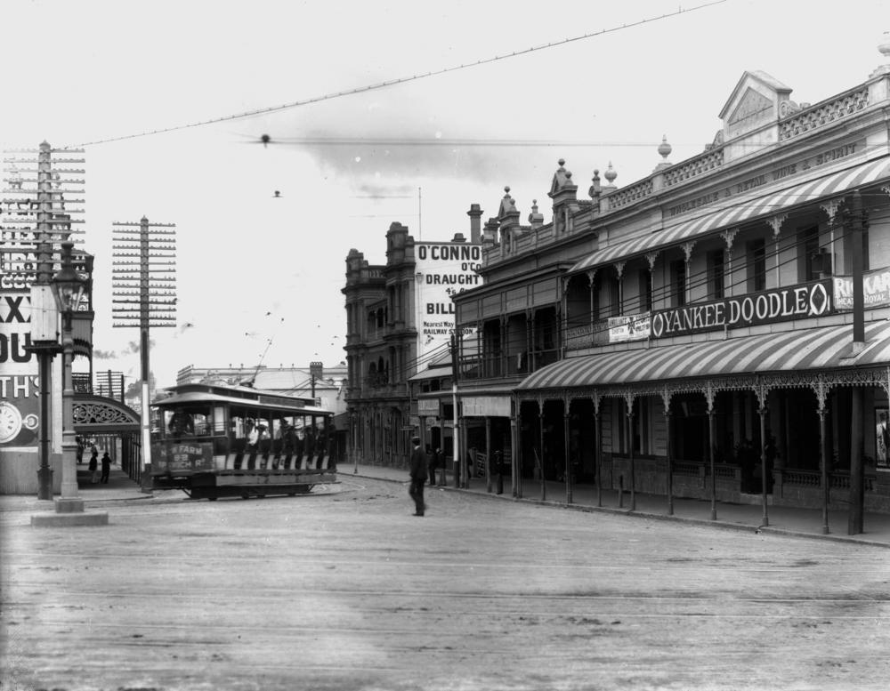 corner of Melbourne and Stanley Streets, South Brisbane, 1904 Poul C Poulsen, founder of the Poulsen Studios in Brisbane, was born in Denmark in 1857 and arrived in Sydney in 1876. In 1882, he moved to Queensland and was later joined by his sisters and brothers from Denmark. He opened his own studio at no 7 Queen Street in 1885 and later opened branches, run by his brothers in other Queensland towns. Poulsen vigorously advertised constant improvements and modernisation in his studio and in the service he provided. His sons and grandson followed in his footsteps. Tram turning from Stanley Street on its way to New Farm. A banner on the building on the right advertises the Ambulance Sports Day to be held at the Exhibition Ground.